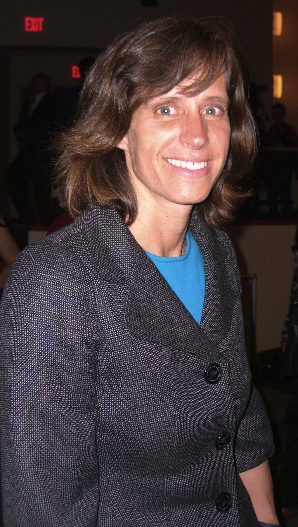 Hoboken, New Jersey Mayor Dawn Zimmer at the swearing-in ceremony of Union City, New Jersey Mayor Brian P. Stack at Union City High School on May 18, 2010, following Stack's re-election victory on May 11. Photo by Luigi Novi. This photo may be used and modified, for any purpose, only if the photographer is visibly credited in each instance in which it is used. (See licensing information below.) For more information on my photos, you can contact me here.